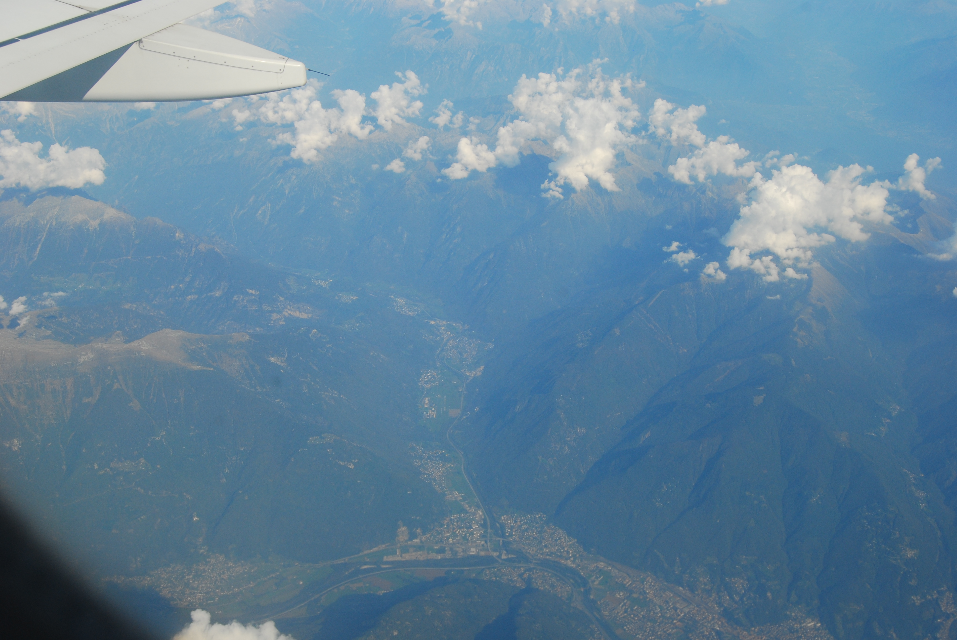 Arbedo-Castione, Ticino, taken form the flight from Malta to Zürich, canton of Glarus, Switzerland